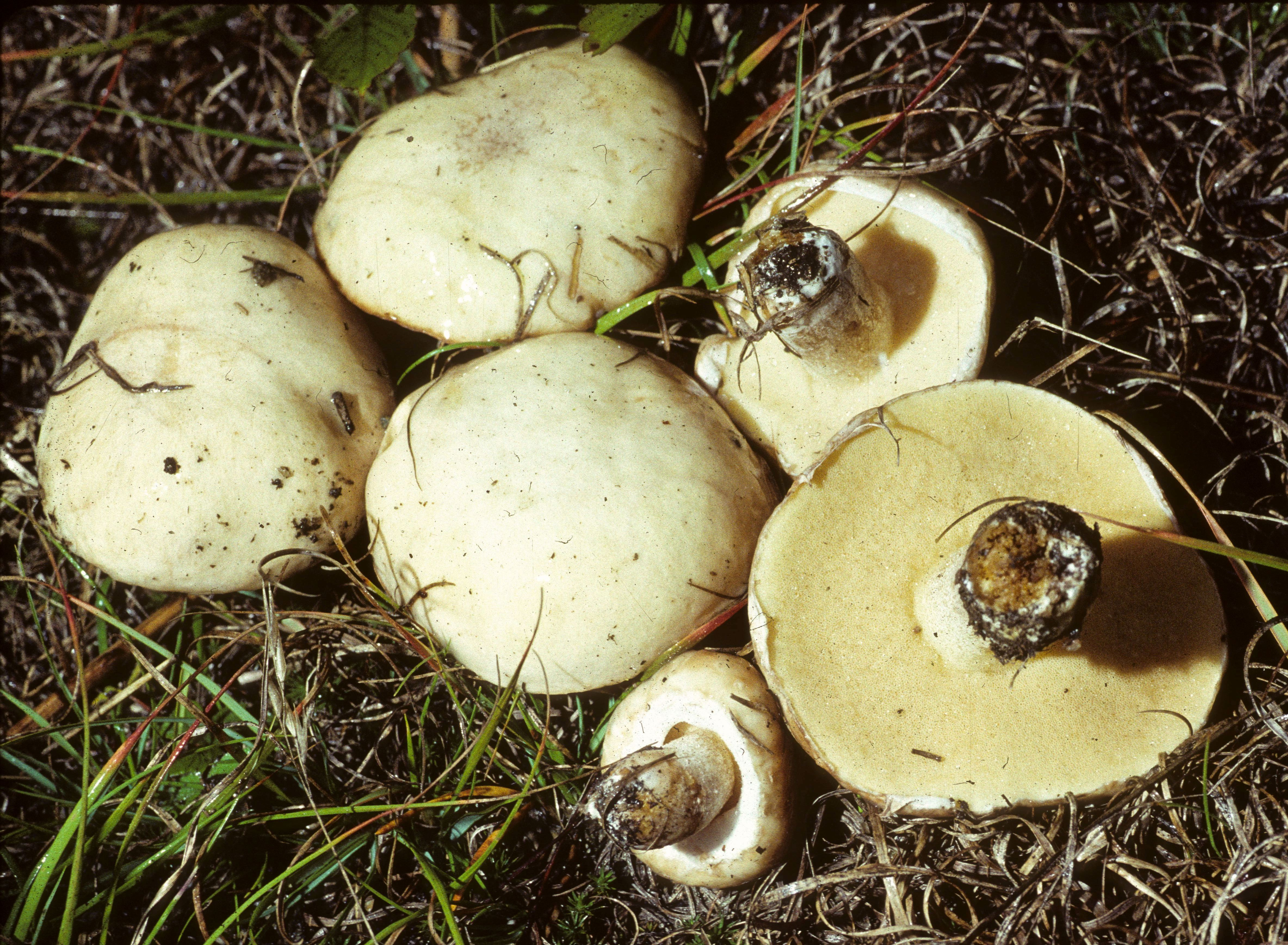 Fruit bodies of the fungus Suillus neoalbidipes M.E. Palm & E.L. Stewart. Specimens photographed in Missisagi Park, Ontario, Canada.